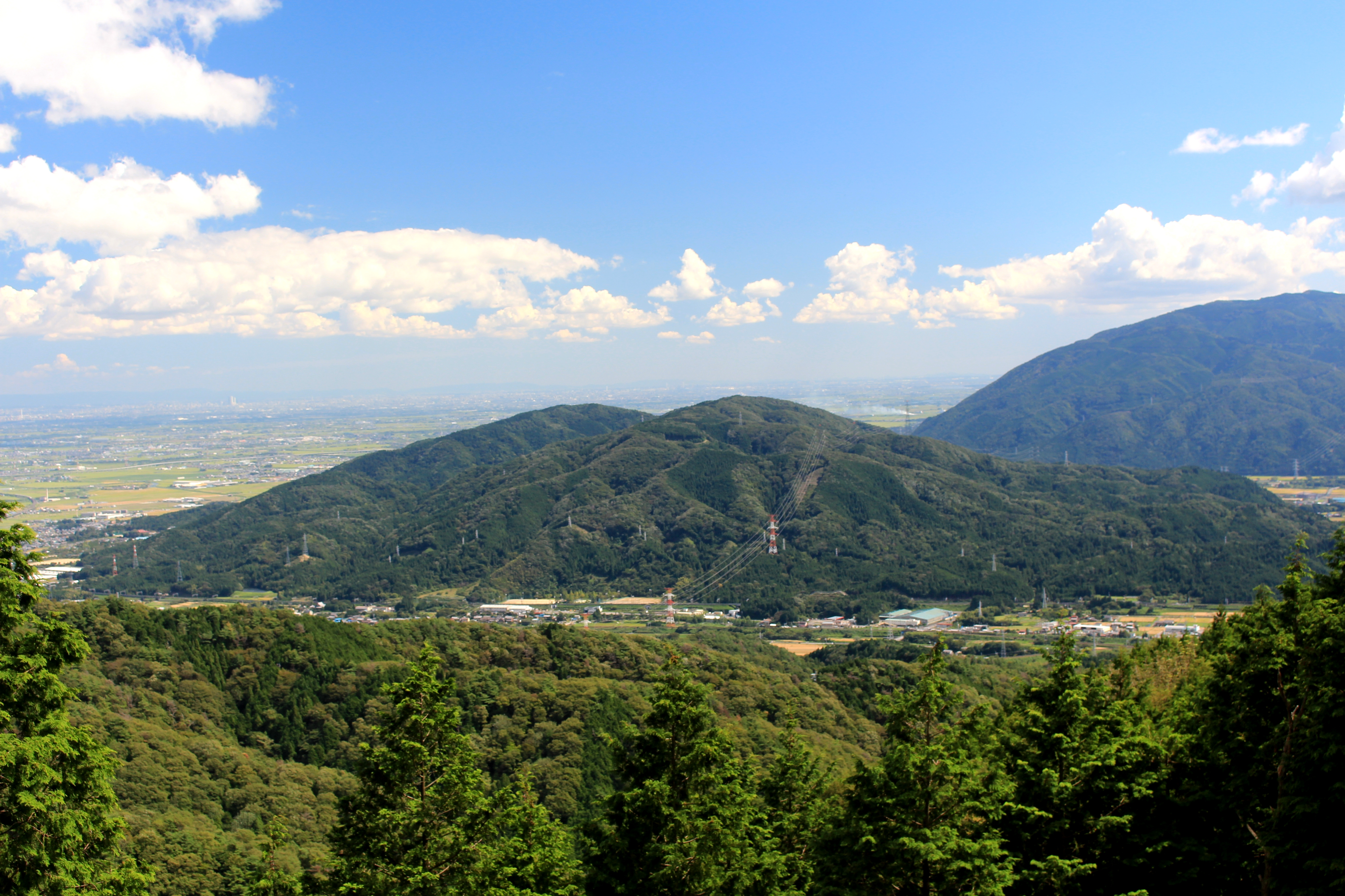 Mount Nangu and Yoro Mountains seen from northern direction in Gifu prefecture, Japan.